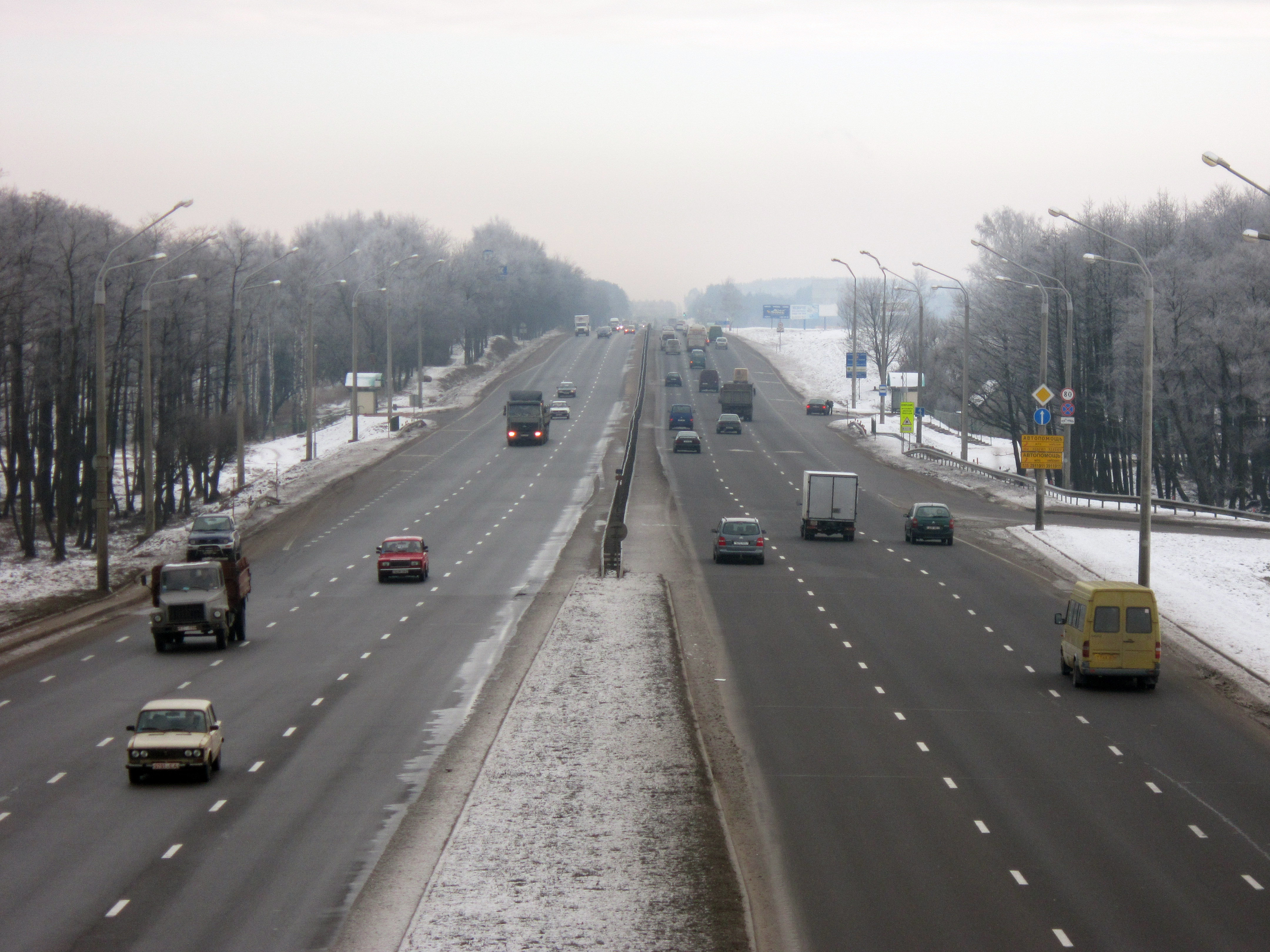 Partyzanski avenue in Minsk — M4 road